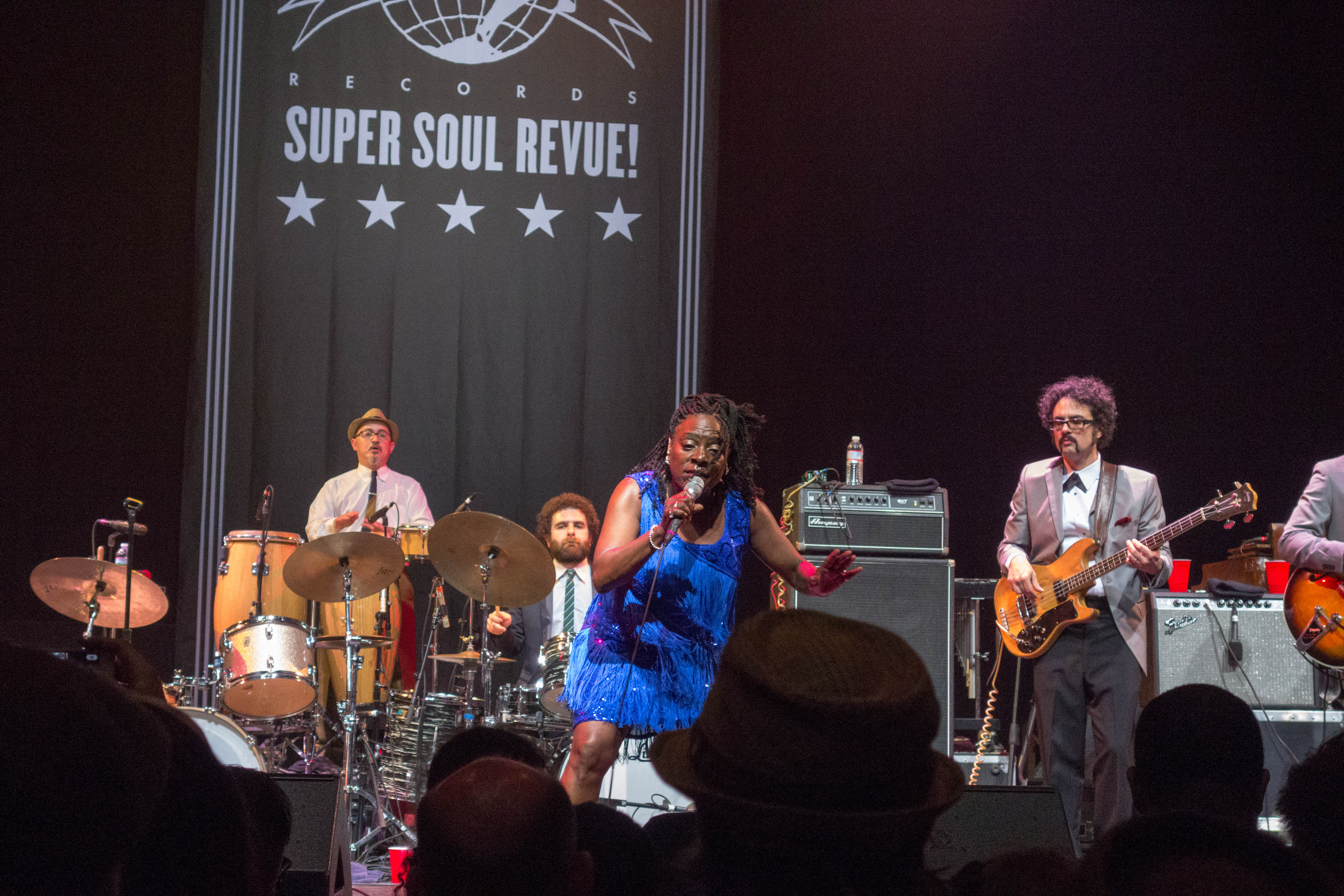 Sharon Jones & The Dap-Kings SXSW 2013